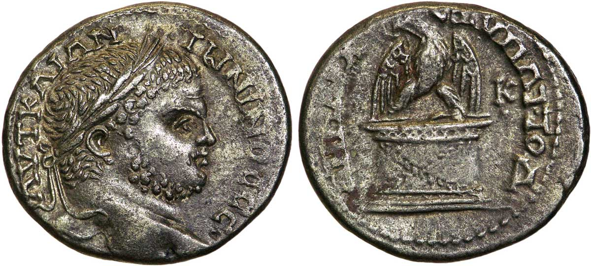 Monnaie frappée en la cité de Byblos